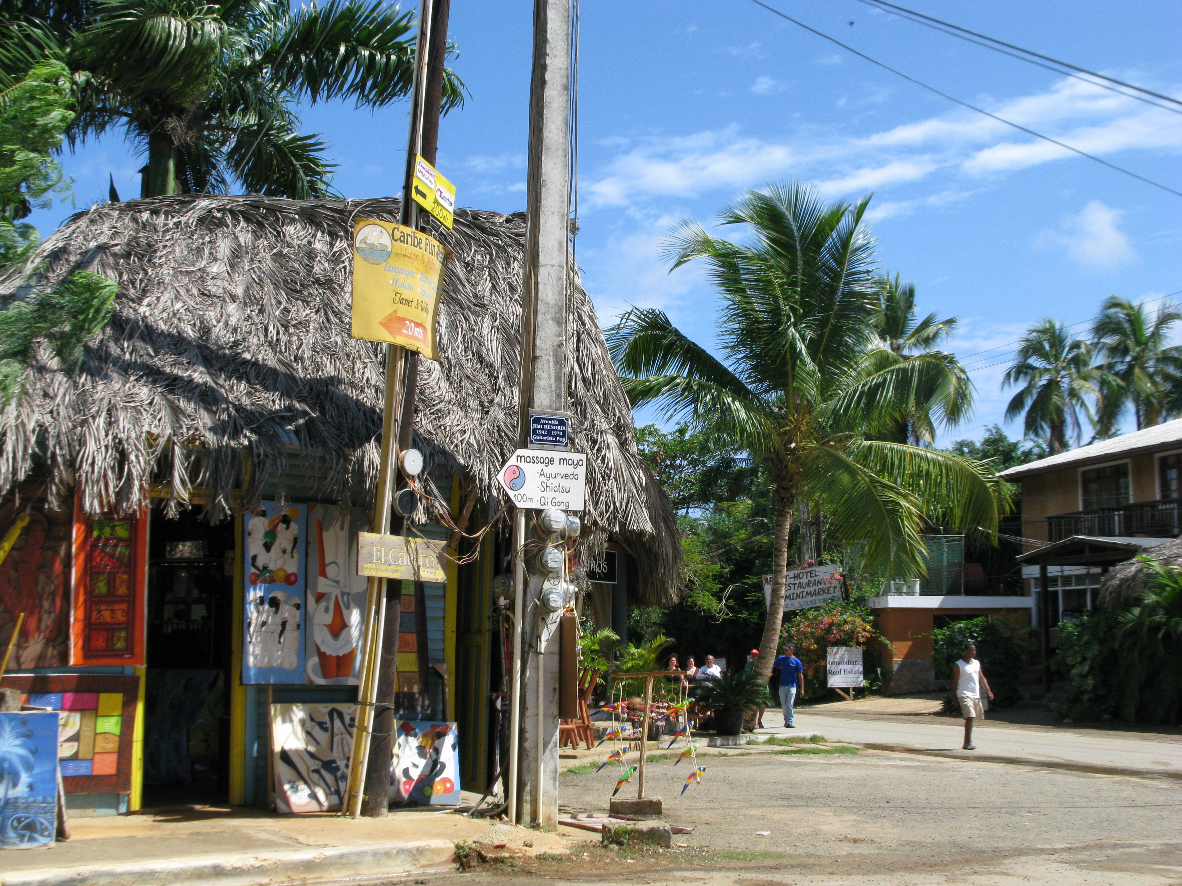 Photo of a crossroads in the town of Las Galeras, Samana, Dominic Republic.